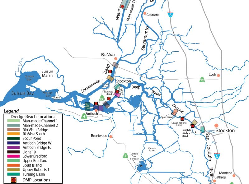 Stockton Deep Water Shipping Channel from United States Army Corps of Engineers